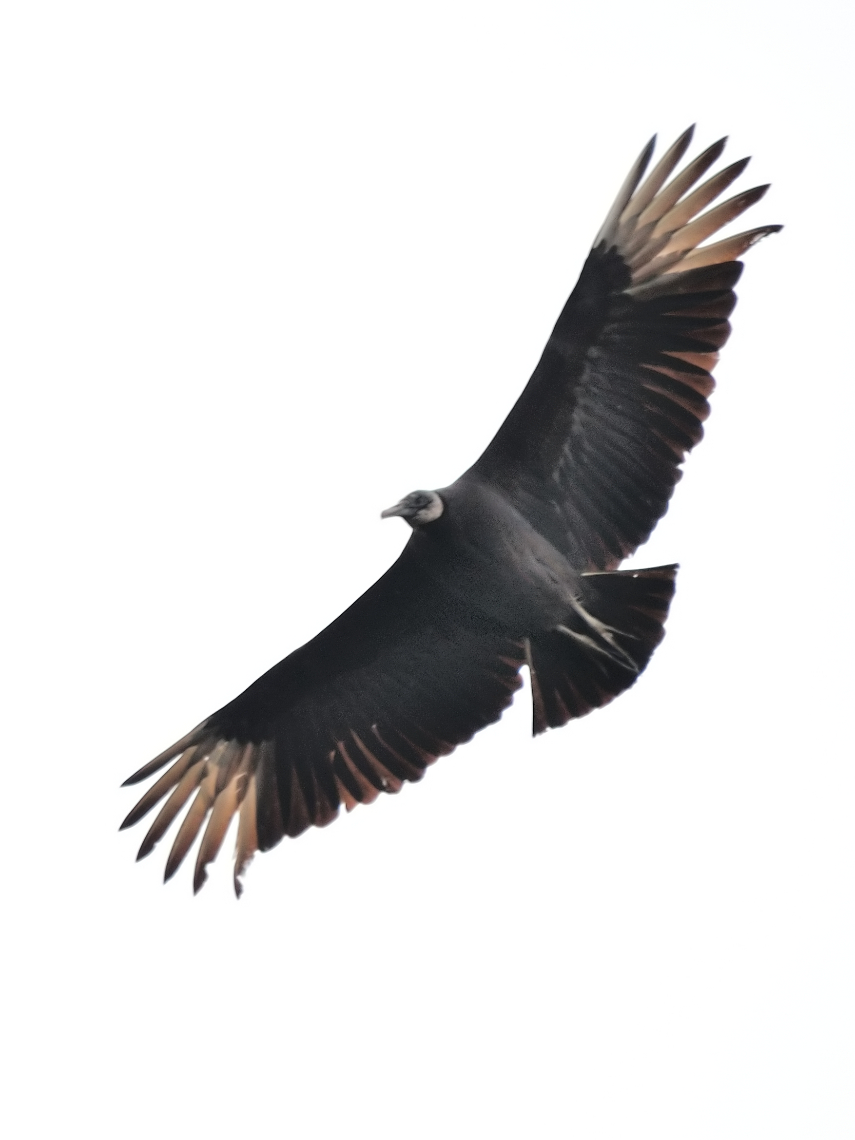 Black Vulture (also known as the American Black Vulture) flying over Myakka River State Park, Florida, USA.